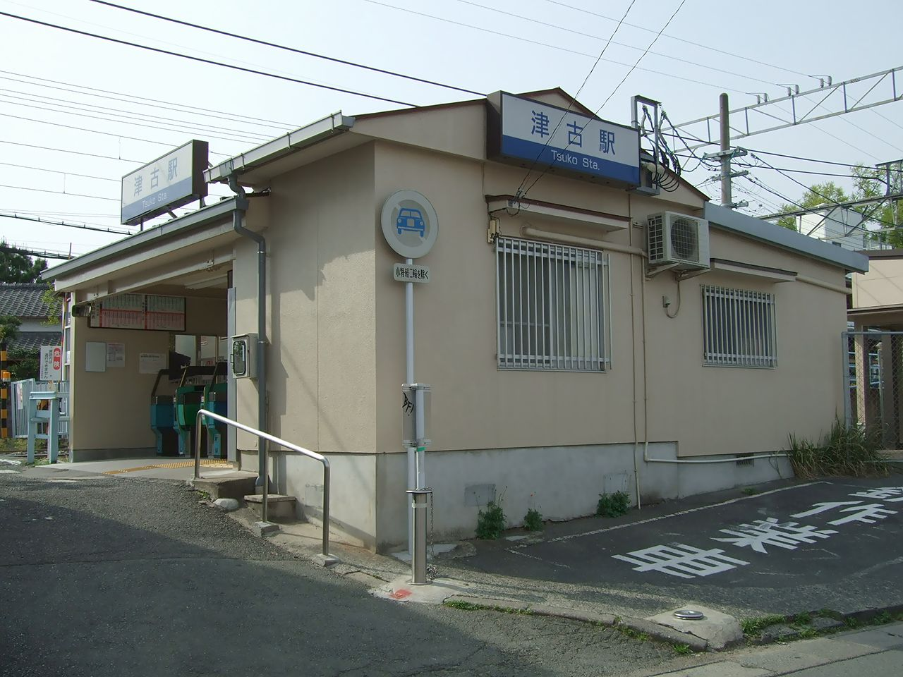 Tsuko Station, Nishitetsu Tenjin Omuta Line.